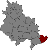 Location of Tossa de Mar in Selva